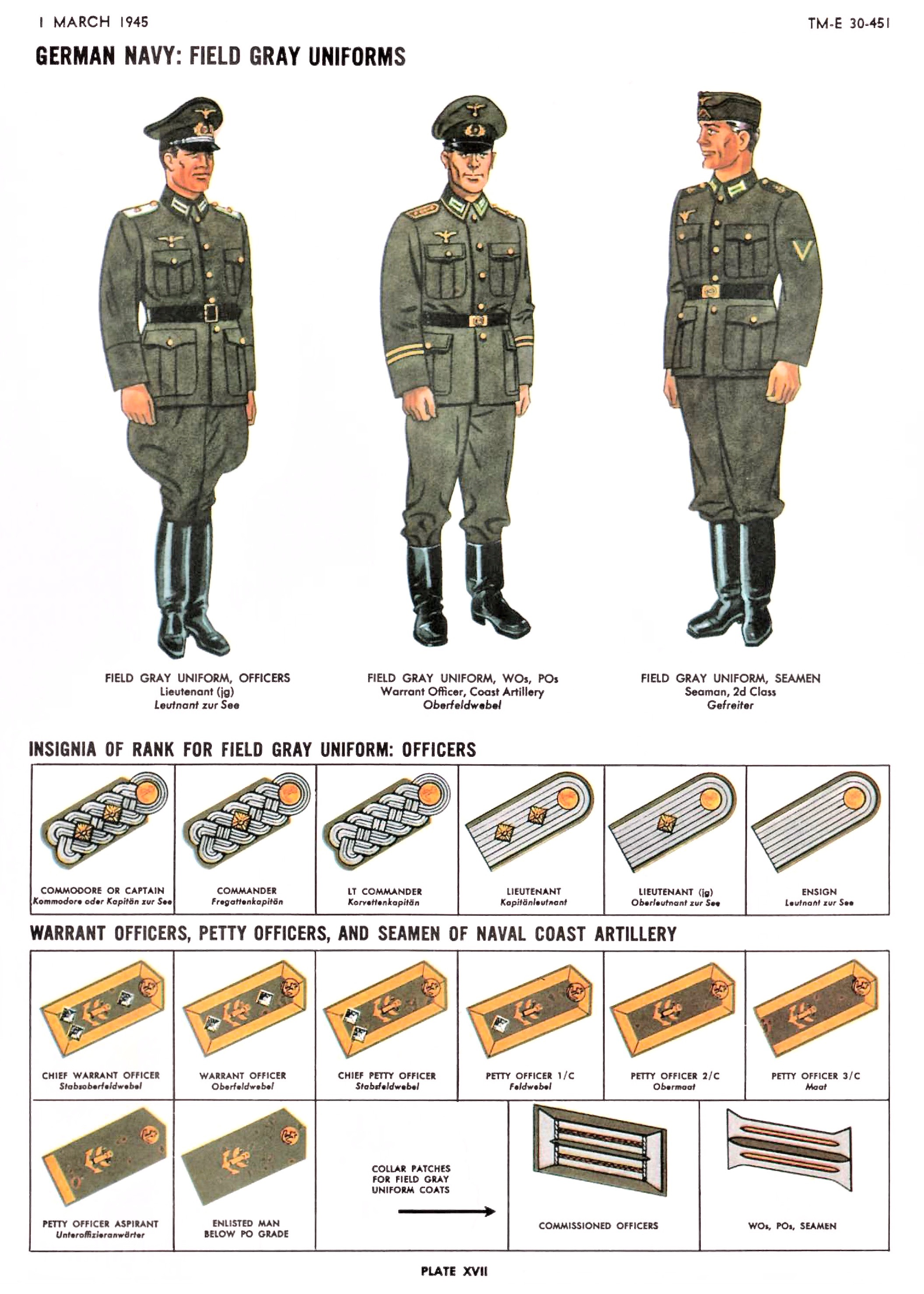 "Handbook on German Military Forces" (US War Dep 1945): Plate XVII – German Navy (WW2 Kriegsmarine) Field Gray Uniforms. Officers, WOs, POs, Coast Artillery; Seamen. Insignia of rank: Officers, Warrant Officers, Petty Officers, and Seamen of Naval Coast Artillery (Küstenartillerie, shoulder straps and collar patches).Uniform plate from "TM-E 30-451 "Handbook on German Military Forces TM-E 30-451, a technical manual published by the U.S. War Department on 15 March 1945 in a loose-leaf format to facilitate revision. The purpose of the handbook was to give officers and enlisted men of the U.S. Army a better understanding of their principal enemy in Europe, and the material was based on information available up to 15 February 1945.The illustrations show Wehrmacht uniforms etc. of Nazi Germany during the Second World War, i. e. for the men in the Heer (German Army), the Kriegsmarine (German Navy), and the Luftwaffe (German Air Force), as well as uniforms of the Waffen-SS (Armed Elite Guard). The U.S. Government produced material was originally restricted but later declassified. The document is now in the Public Domain and can be shared under the Creative Commons license. Legal disclaimer This image shows (or resembles) a symbol that was used by the National Socialist (NSDAP/Nazi) government of Germany or an organization closely associated to it, or another party which has been banned by the Federal Constitutional Court of Germany. The use of insignia of organizations that have been banned in Germany (like the Nazi swastika or the arrow cross) are also illegal in Austria, Hungary, Poland, Czech Republic, France, Brazil, Israel, Ukraine, Russia and other countries, depending on context. In Germany, the applicable law is paragraph 86a of the criminal code (StGB), in Poland – Art. 256 of the criminal code (Dz.U. 1997 nr 88 poz. 553).